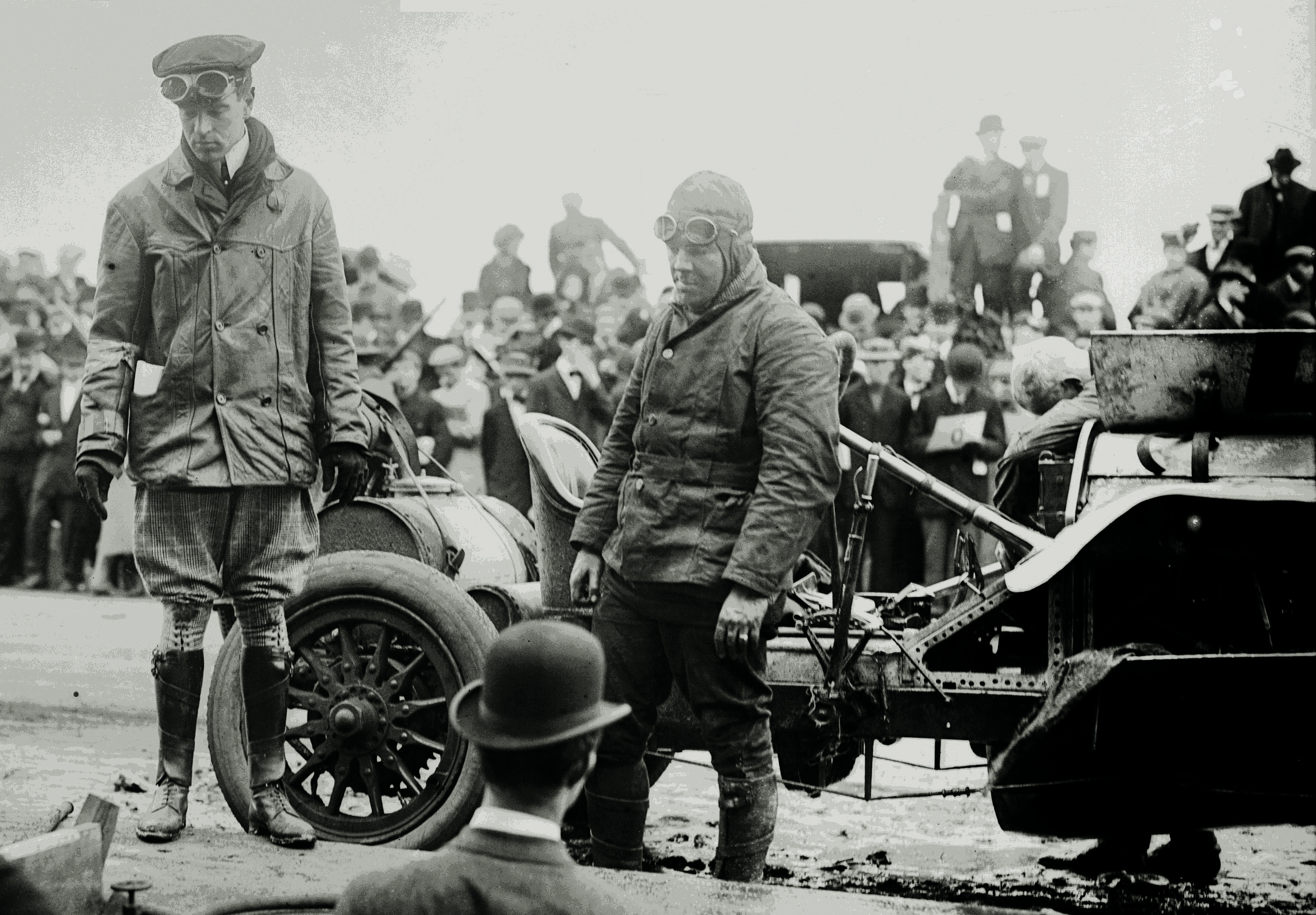 William Kissam Vanderbilt II at the 1908 Vanderbilt Cup race